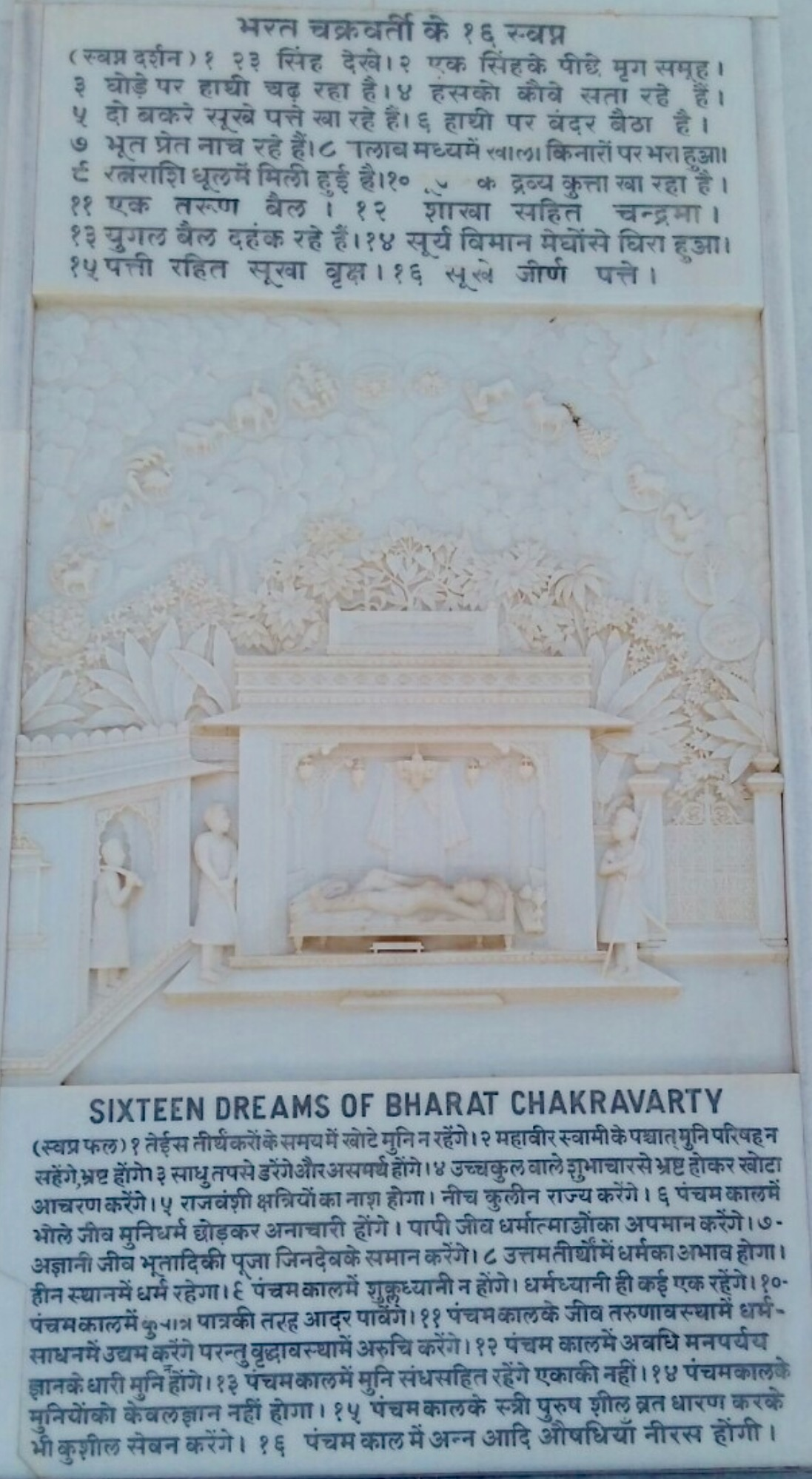 Bharat Chakravarti saw 16 dreams regarding present "Pancham Ara" (age of vice) Sixth dream: A tank full of water all round, but dry in the centre. This meant that religion (Jainism) would disappear from the Aryavarta, and would spread in the surrounding countries. -From 'Risabha-Deva-The-Founder-of-Jainism' by Champat Rai Jain (1929